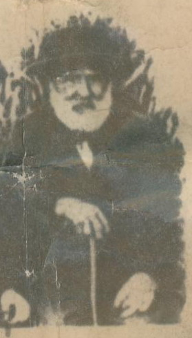 Published photo of Joseph Waldo Rice ca 1900. Subject deceased 1915.